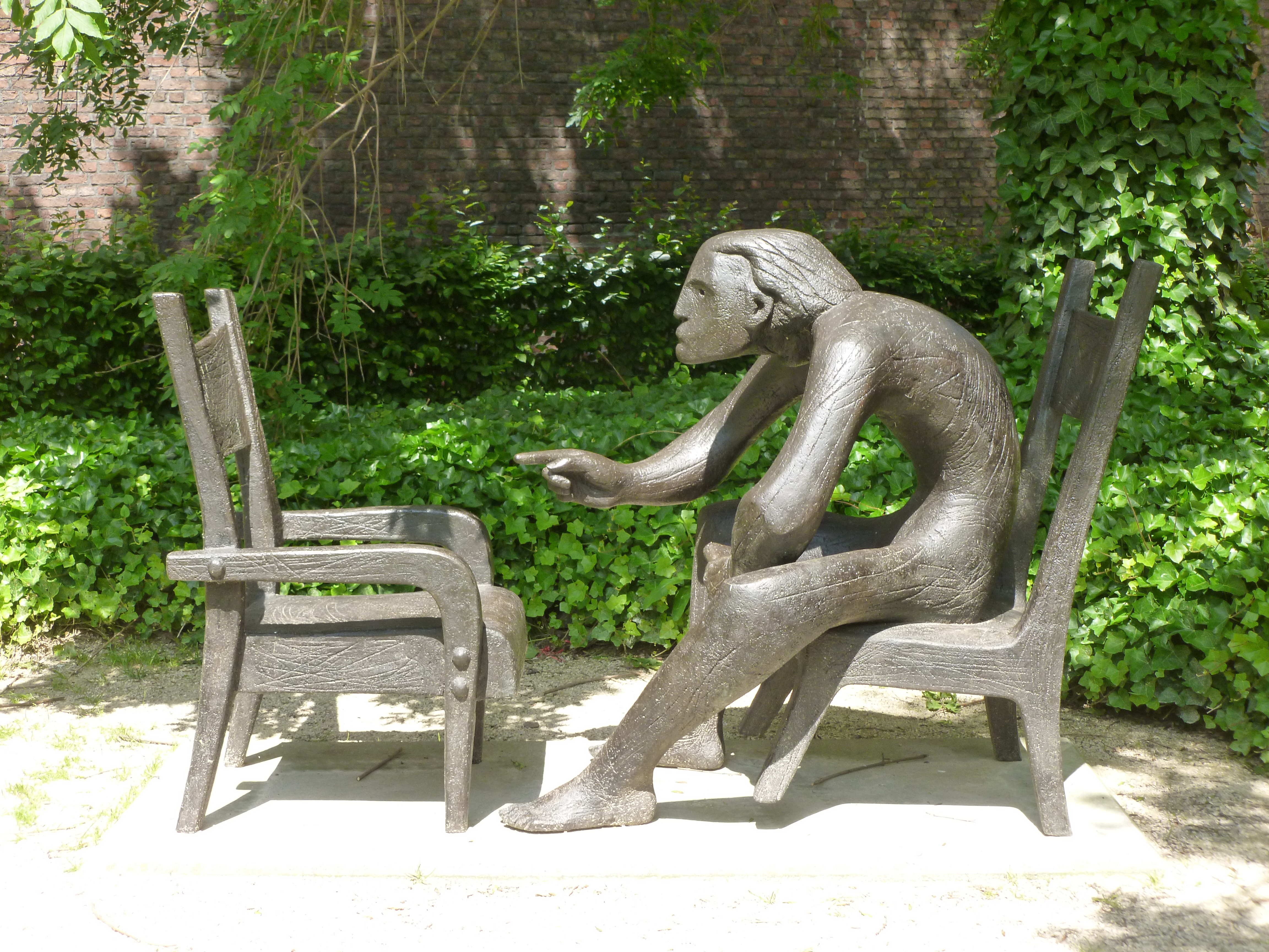 A monument for Louis Paul Boon made by the Flemish sculptor Marc De Bruyn in Aalst, Belgium. Located in the garden of the Municipal Museum.